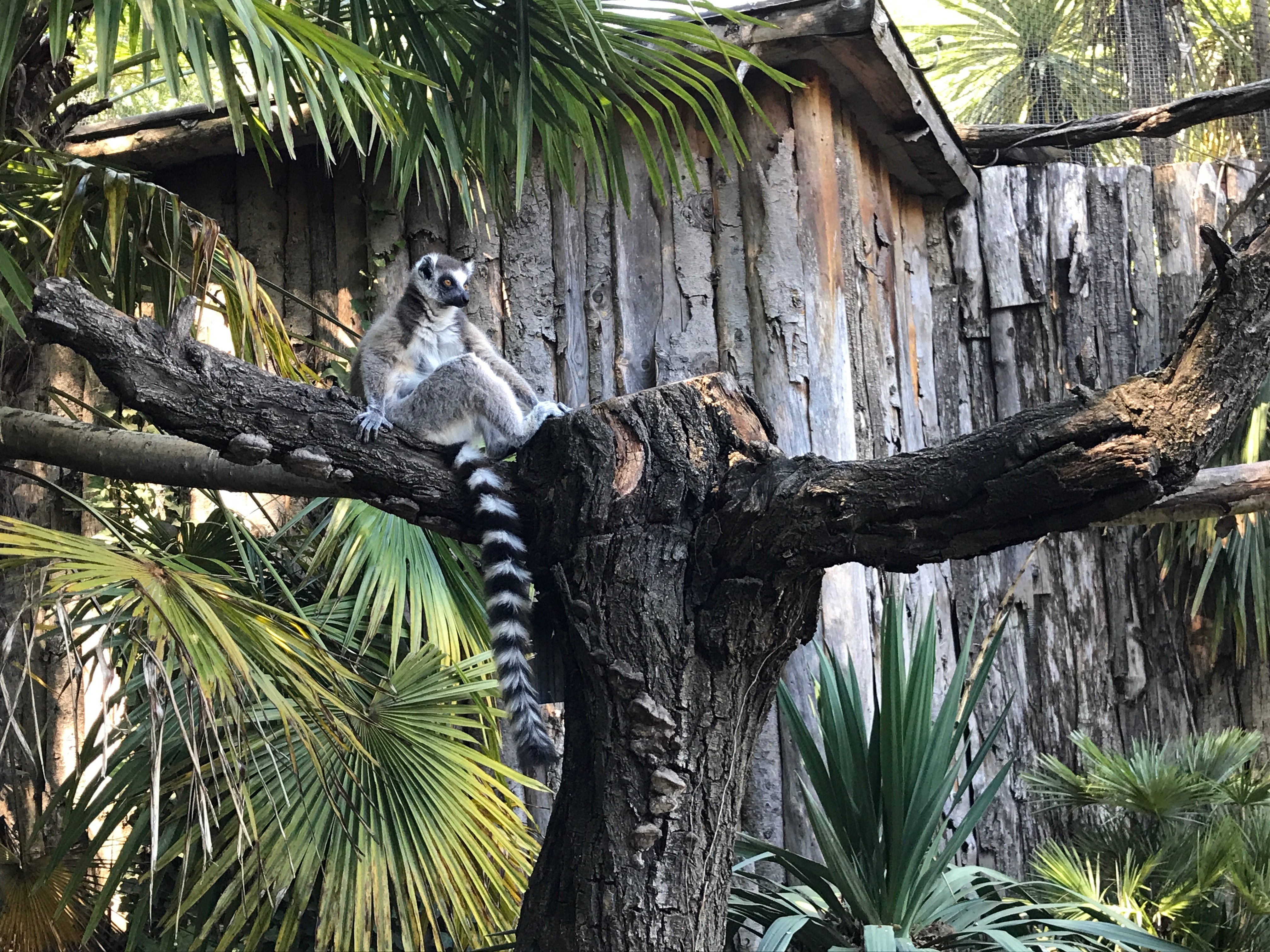 Lemur catta in the walk through habitat at the Pistoia zoo (Giardino zoologico di Pistoia)